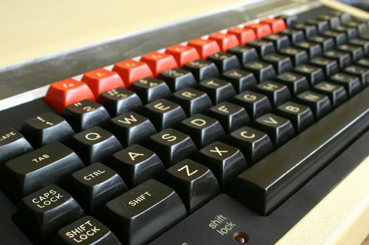 This was my first computer. It was in constant use from 1986 until 1994. I learned to program on it.